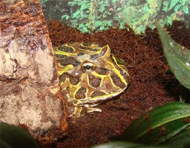 Horned frog example.